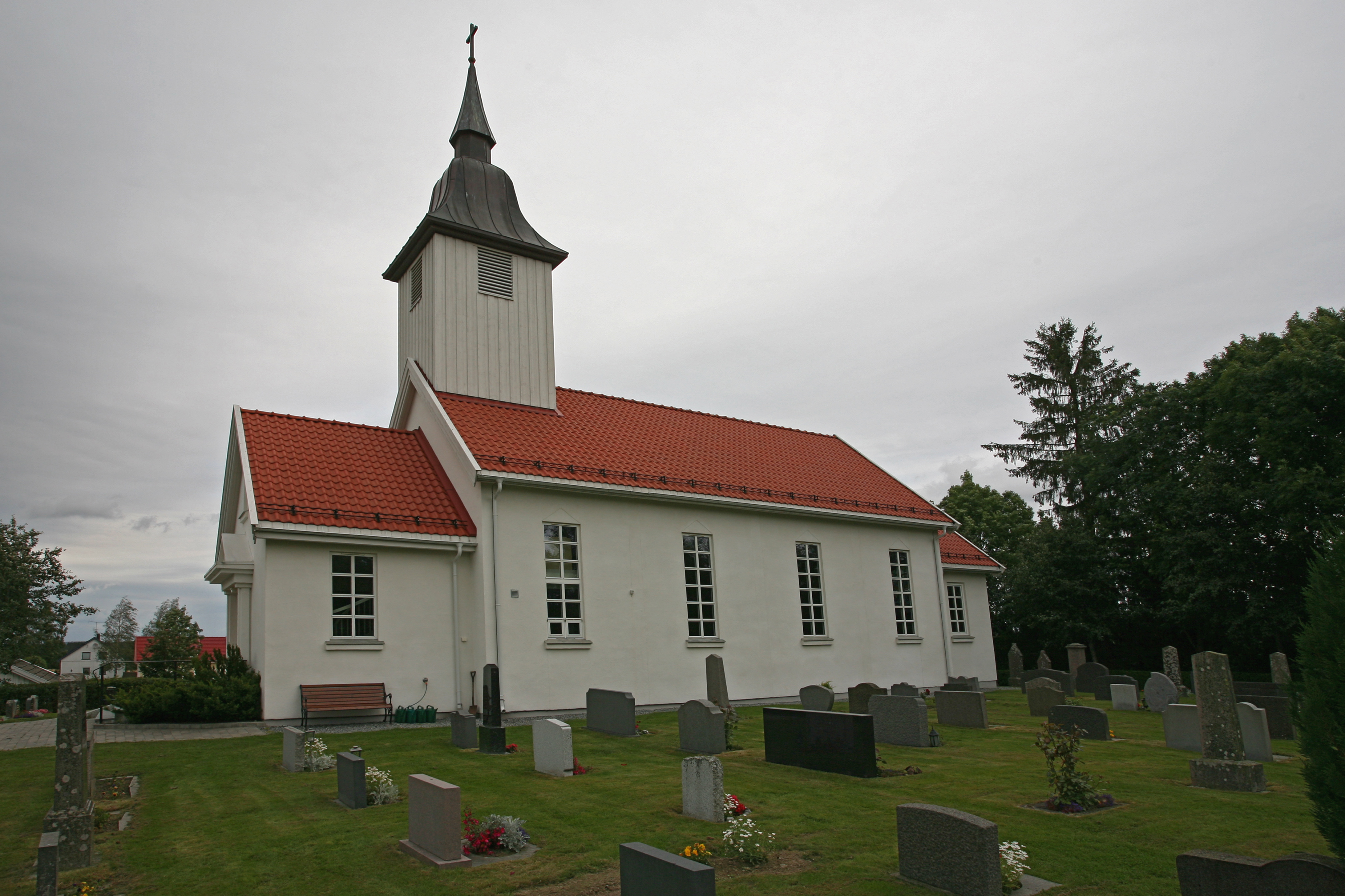 Picture of Heli kirke (Østfold - Norway)